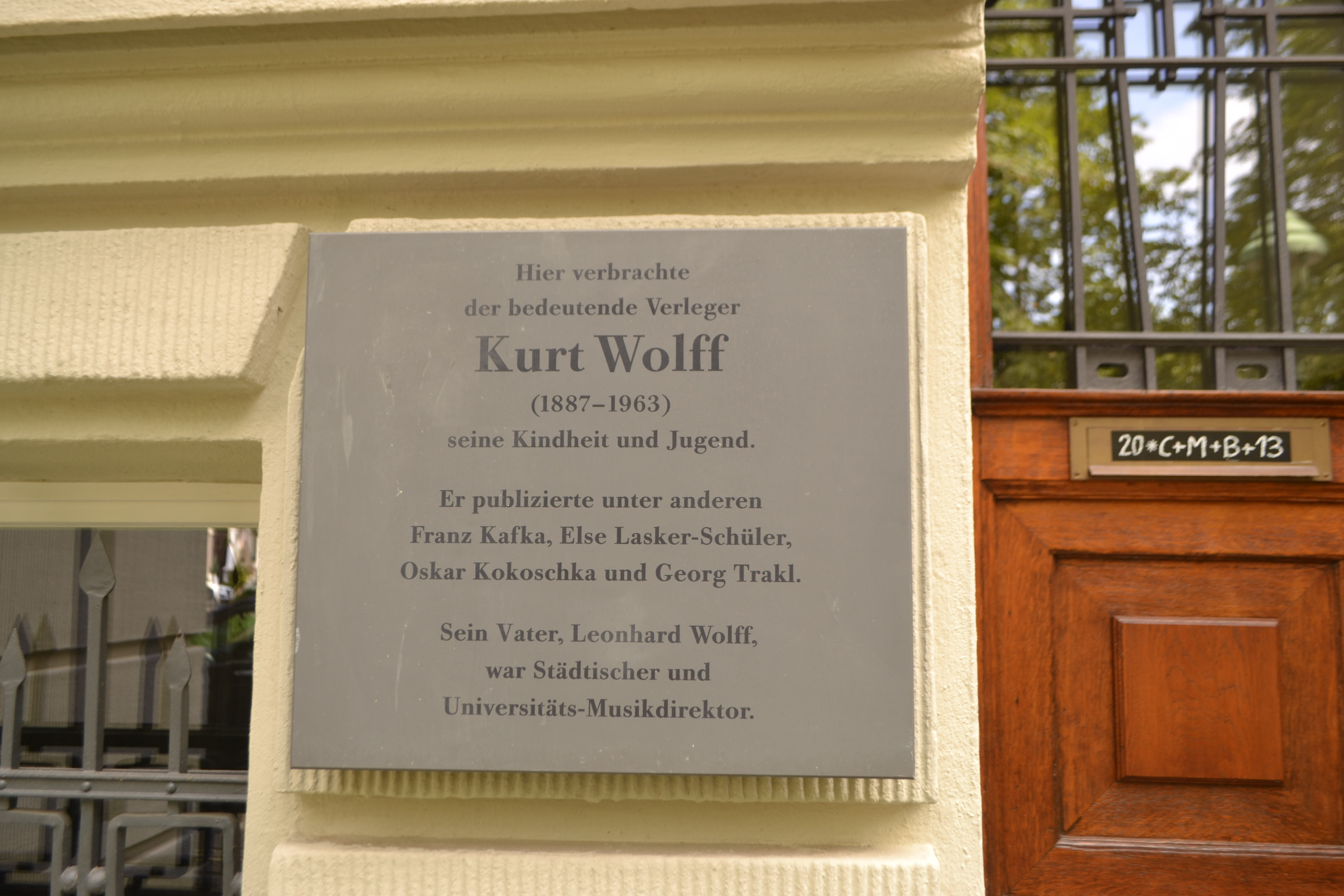 Sign left to the entrance of Poppelsdorfer Allee 55 in Bonn, Germany, in memory of Kurt Wolff.